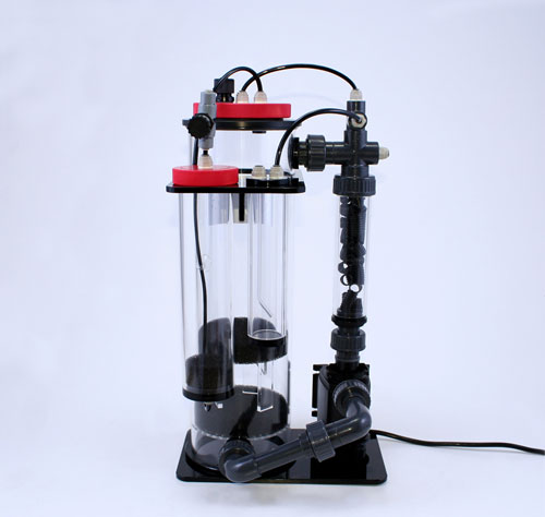 Calcium reactors are used to help establish a steady alkalinity in an aquatic system.